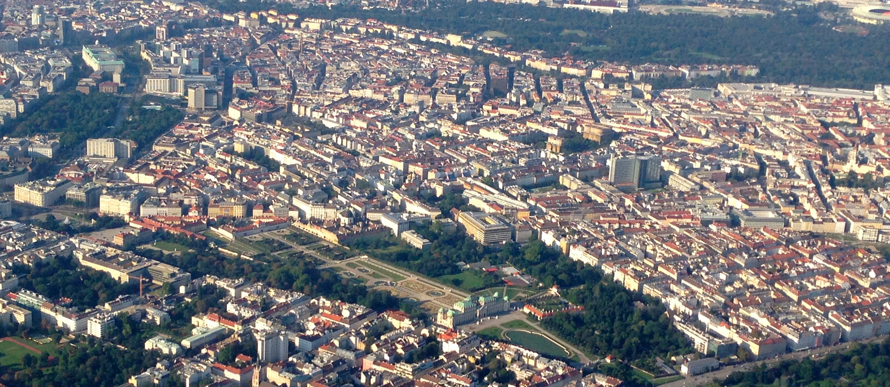 Landing in Vienna on August 2, 2014. Window seat on the pilot’s side. Approach takes you over the city of Vienna and, it was a beautiful day.